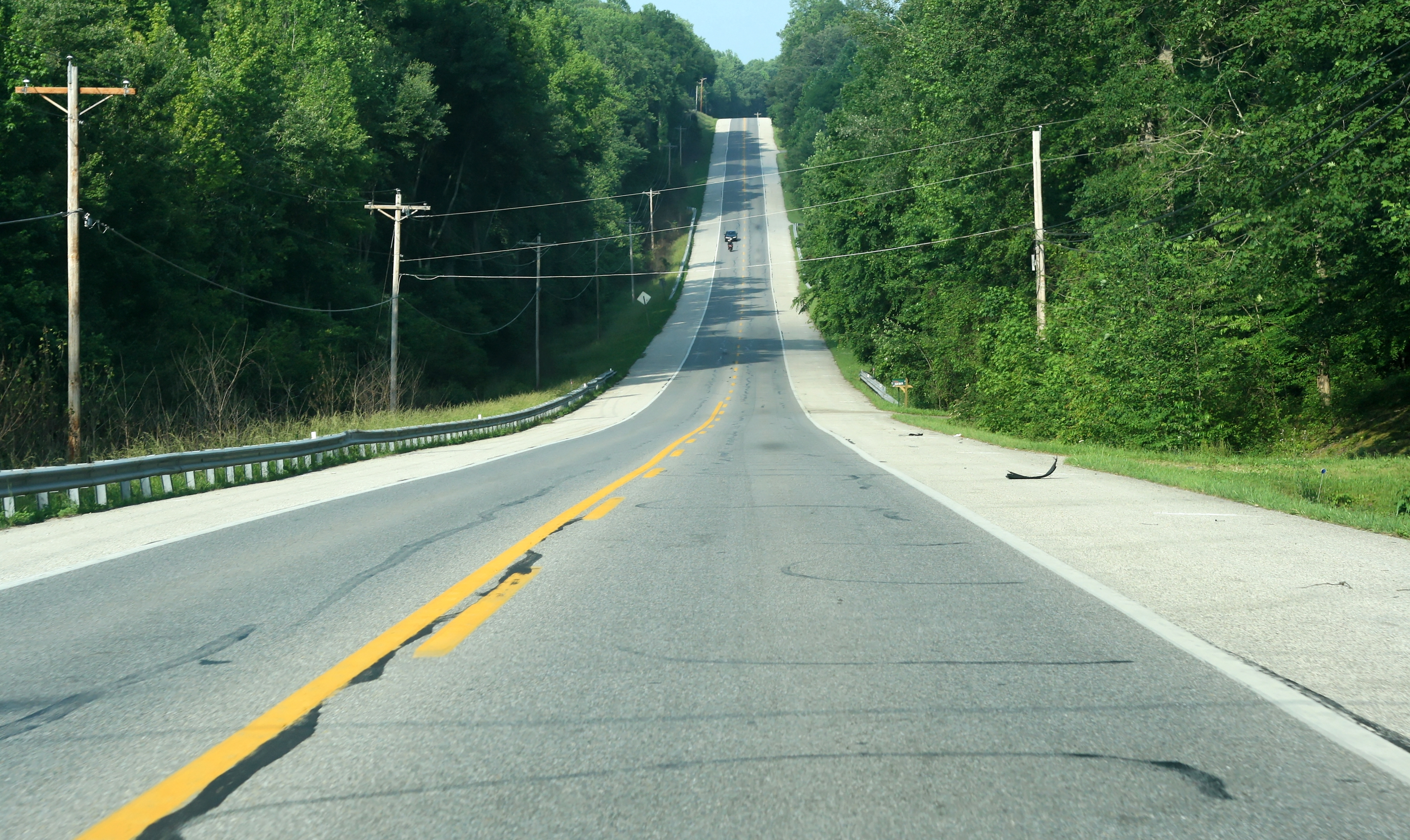 Shot of Maryland State Route 488 (La Plata Road), heading eastbound in Charles County in Southern Maryland.